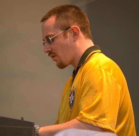 Andy Connell of Swing Out Sister performing at Bayfront Park in Miami Beach, FL